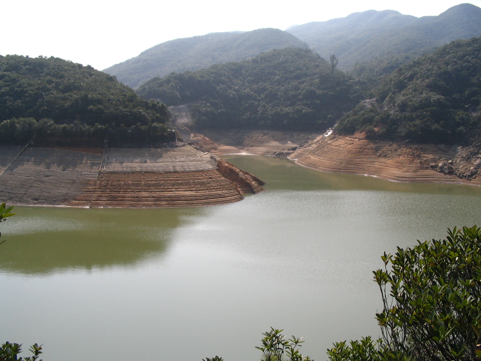 Photo of Tai Tam Reservoir